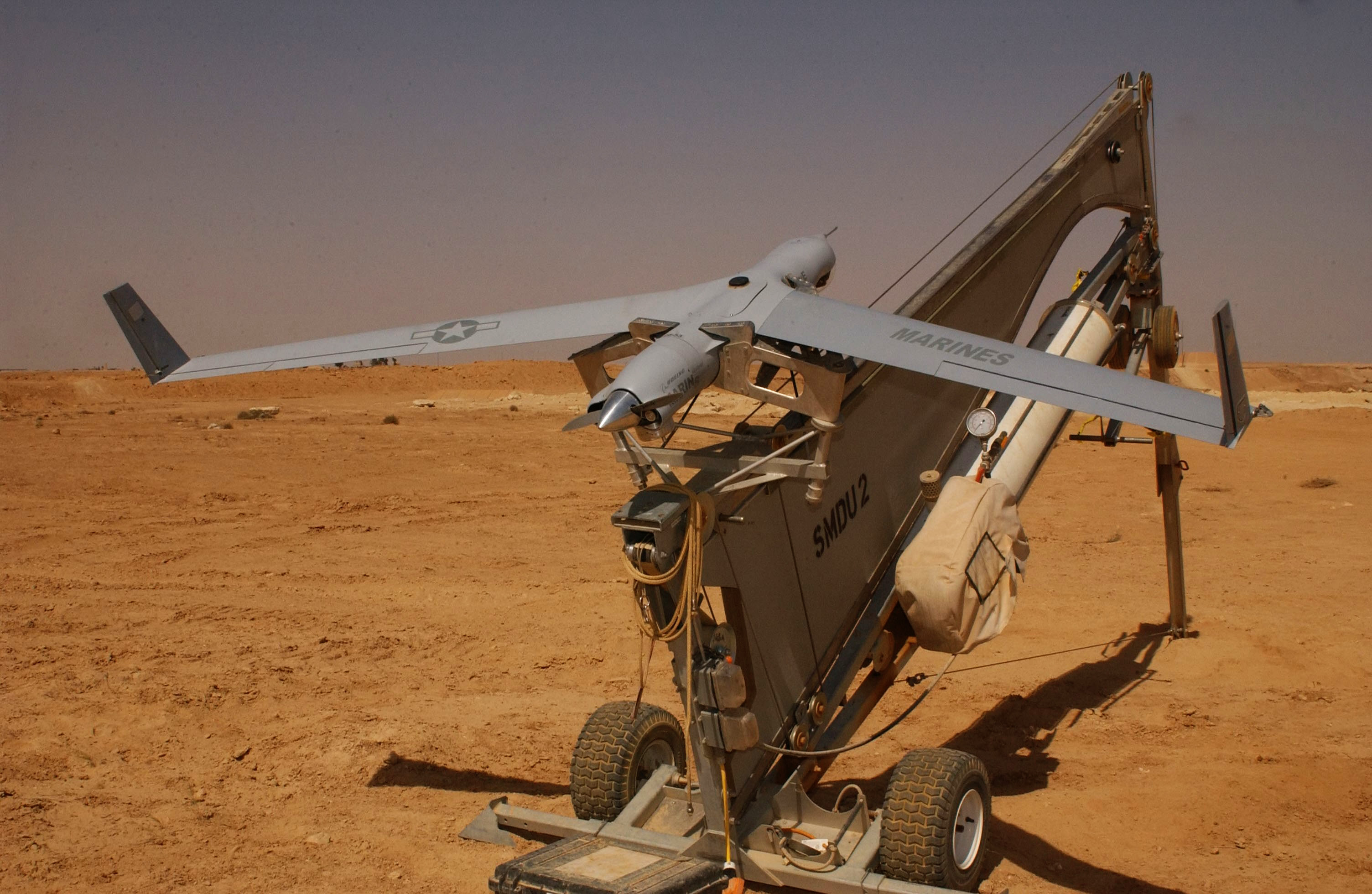 AL ASAD, Iraq--ScanEagle UAV sits on the catapult prior to launch. A small detachment of Marines and civilians is deployed here to provide intelligence, surveillance, and reconnaissance in western Iraq. The detachment is from Marine Unmanned Aerial Vehicle Squadron 2, 2nd Marine Aircraft Wing, Cherry Point, North Carolina. ScanEagle weighs approximately 40 pounds and has a 10-foot wingspan. The aircraft operates with a small engine, requiring a small amount fuel. Its 4-foot frame can remain airborne for more than 10 hours. Each drone is launched using a catapult system, which makes it runway independent and perfect for forward operating forces.